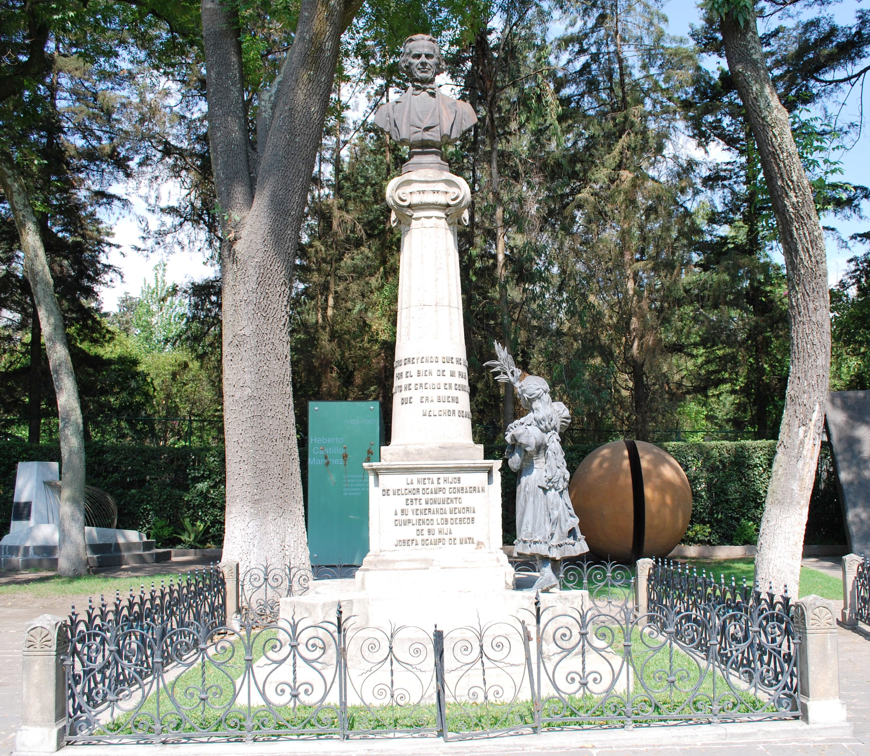 Tomb of Melchor Ocampo in the Panteon Civil de Dolores cemetery in Mexico City